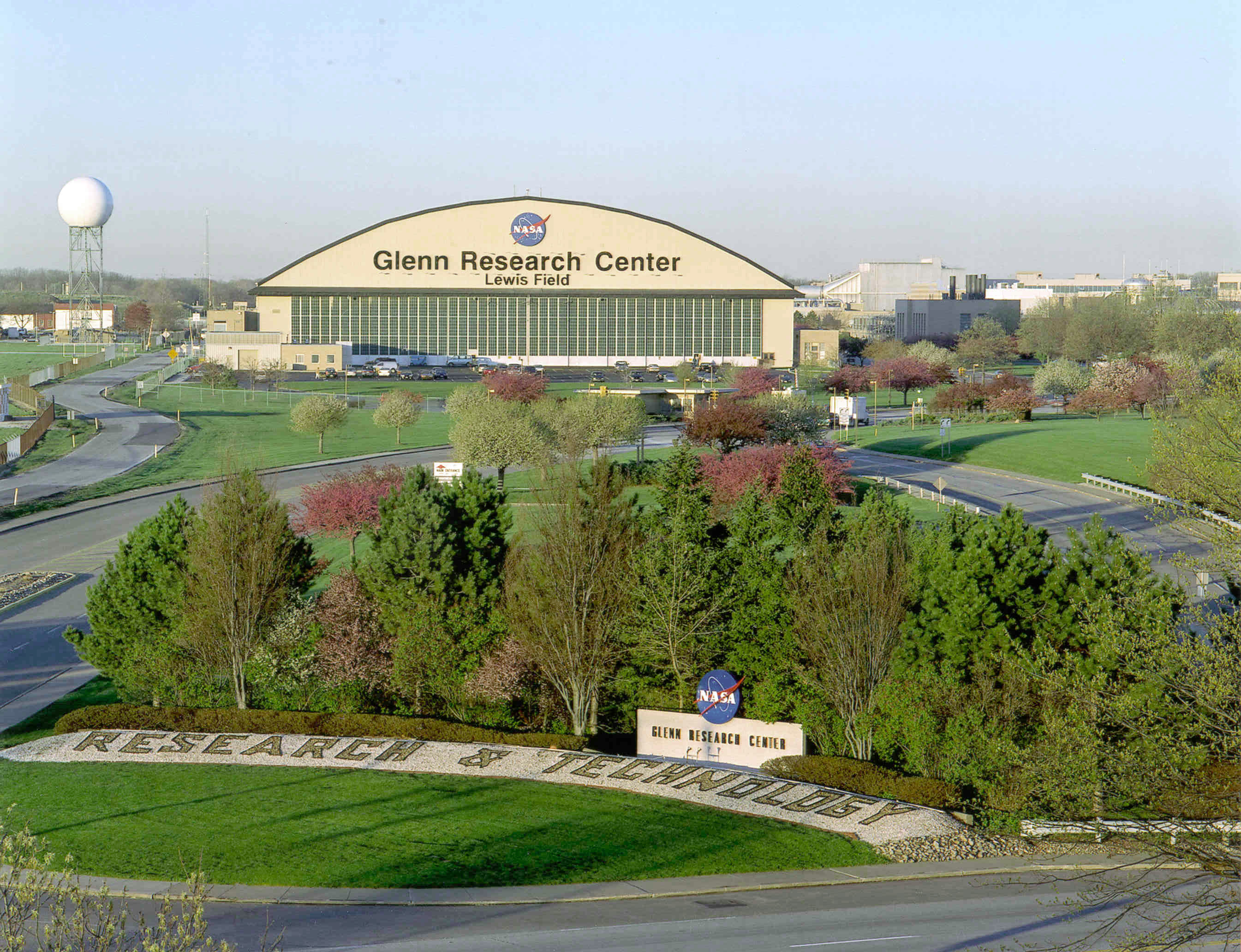 View of the Hangar and Main Gate at NASA's John H. Glenn Research Center, Cleveland, Ohio. Formerly known as the Airplane Engine Research Laboratory (AERL) under the National Advisory Committee for Aeronautics (NACA),and then renamed the Lewis Research Center, for George W. Lewis, NACA Director of Aeronautical Research. It was renamed the John H. Glenn Research Center at Lewis Field in 1999. Here aircraft engines and spacecraft propulsion systems are developed and tested.